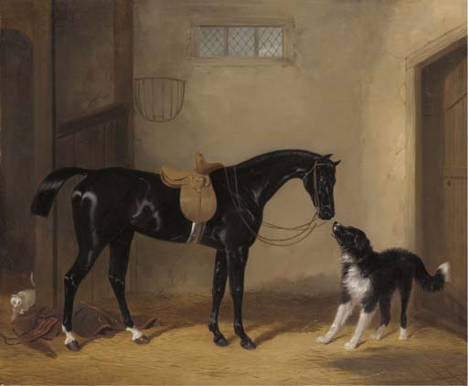 Portrait of a saddle black hunter with a sheep dog in a stable (Oil on canvas)